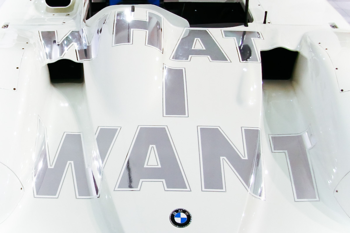 1999 BMW V12 LMR Art Car by Jenny Holzer. "What I want."